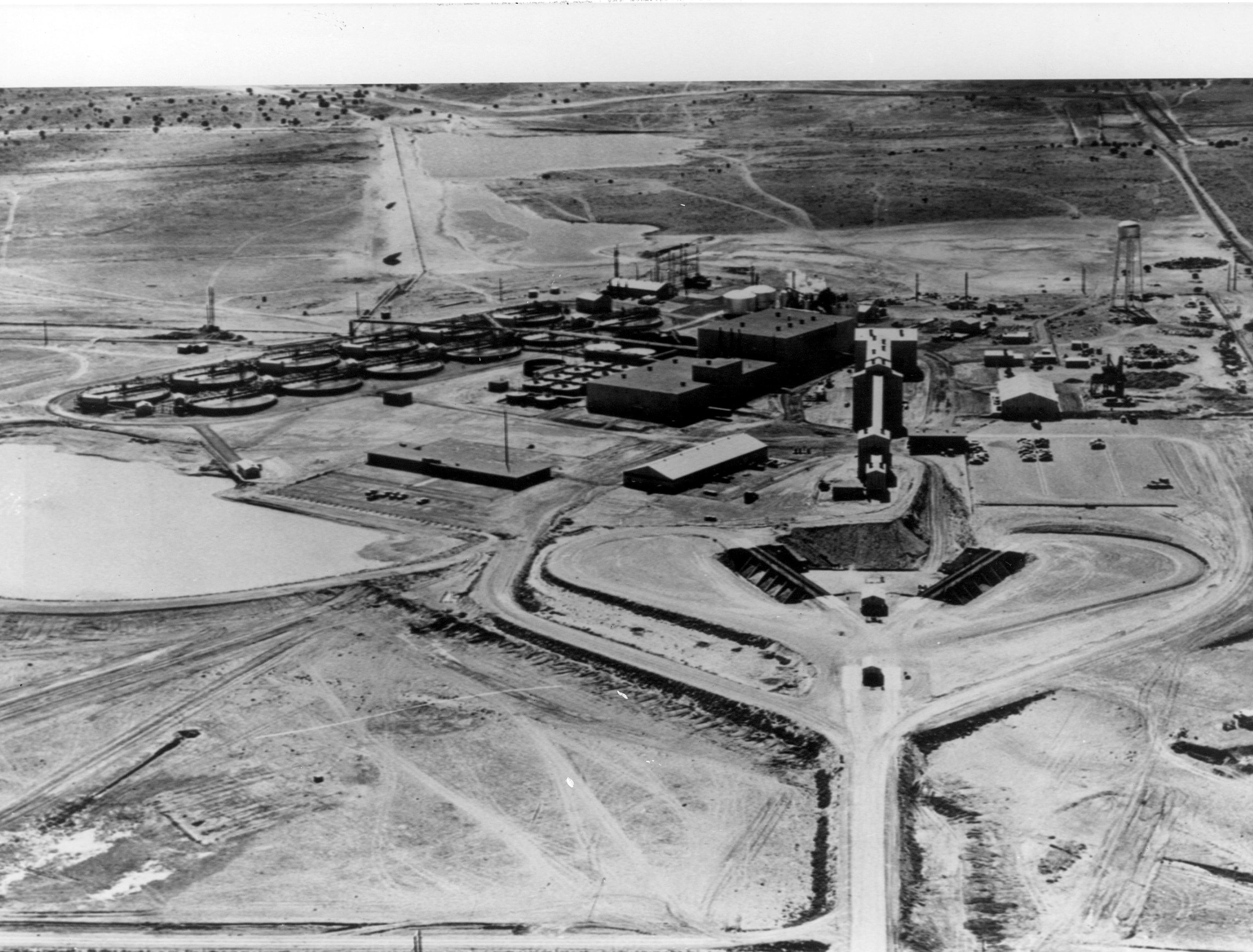 Aerial view of the Kerr-McGee Corporation Uranium mill — in Grants, New Mexico. The largest uranium mill in the United States, with a processing capacity in excess of 5,000 tons of ore per day.